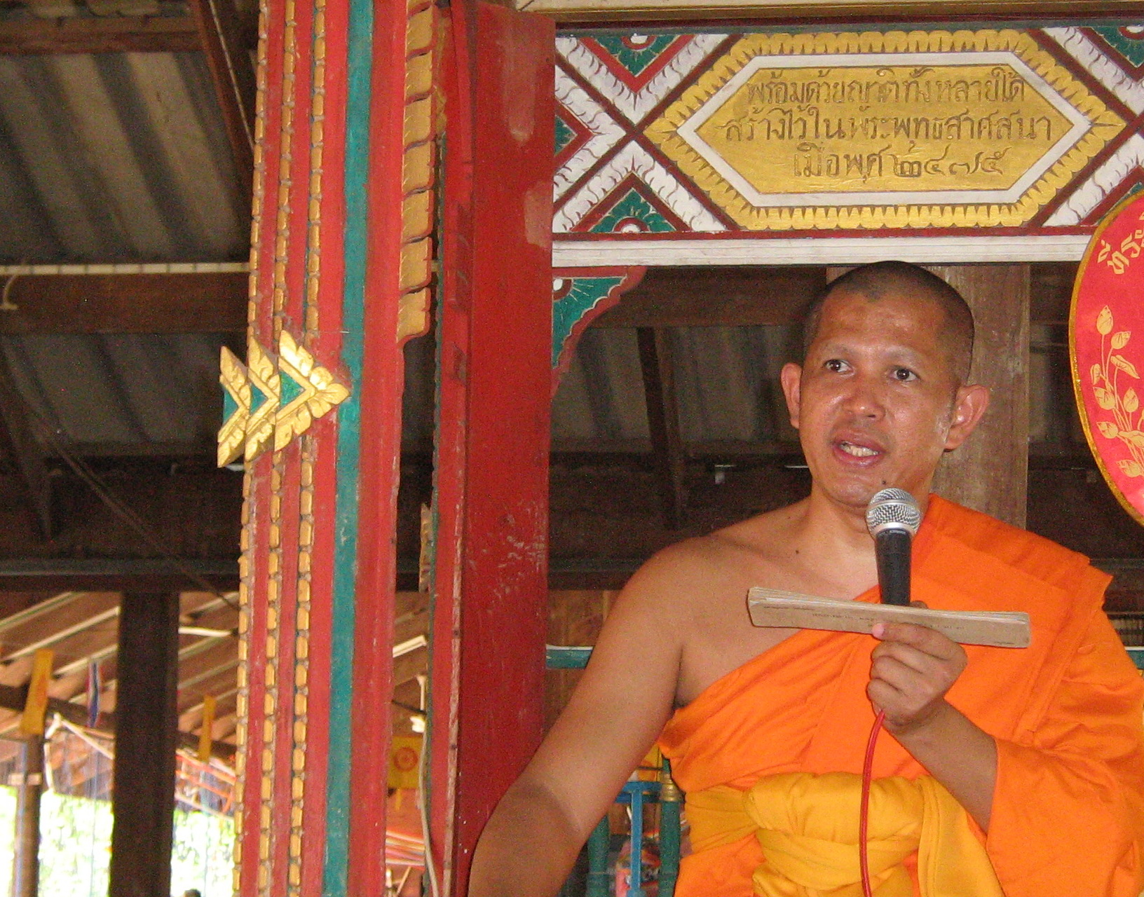 Buddhist monk preaches in Ban Pa Sao, Pa Sao subdistrict, Mueang Uttaradit, Uttaradit Province, Thailand.